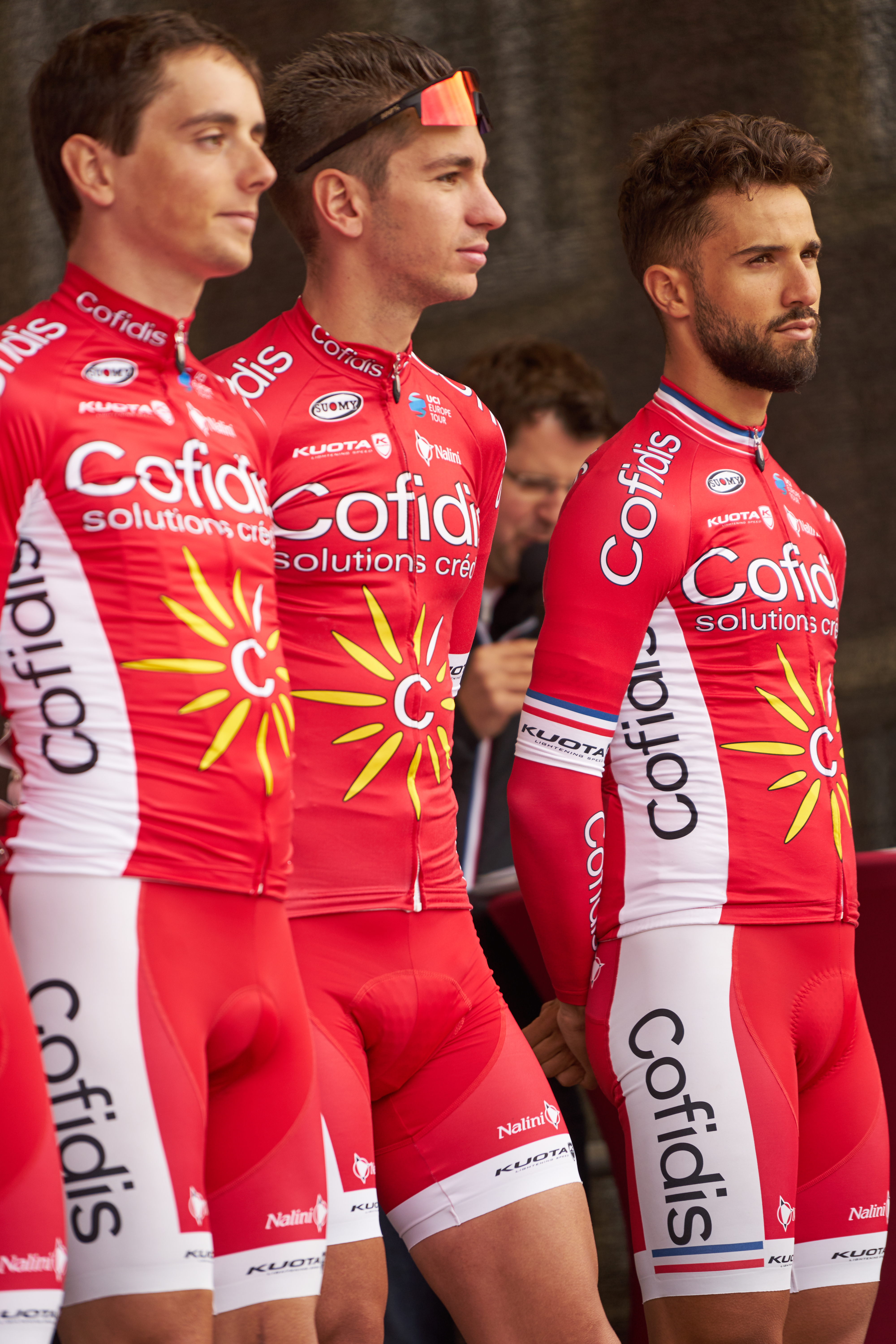 Münsterland Giro 2018, Team Cofidis, Solutions Crédits in Coesfeld (start location).